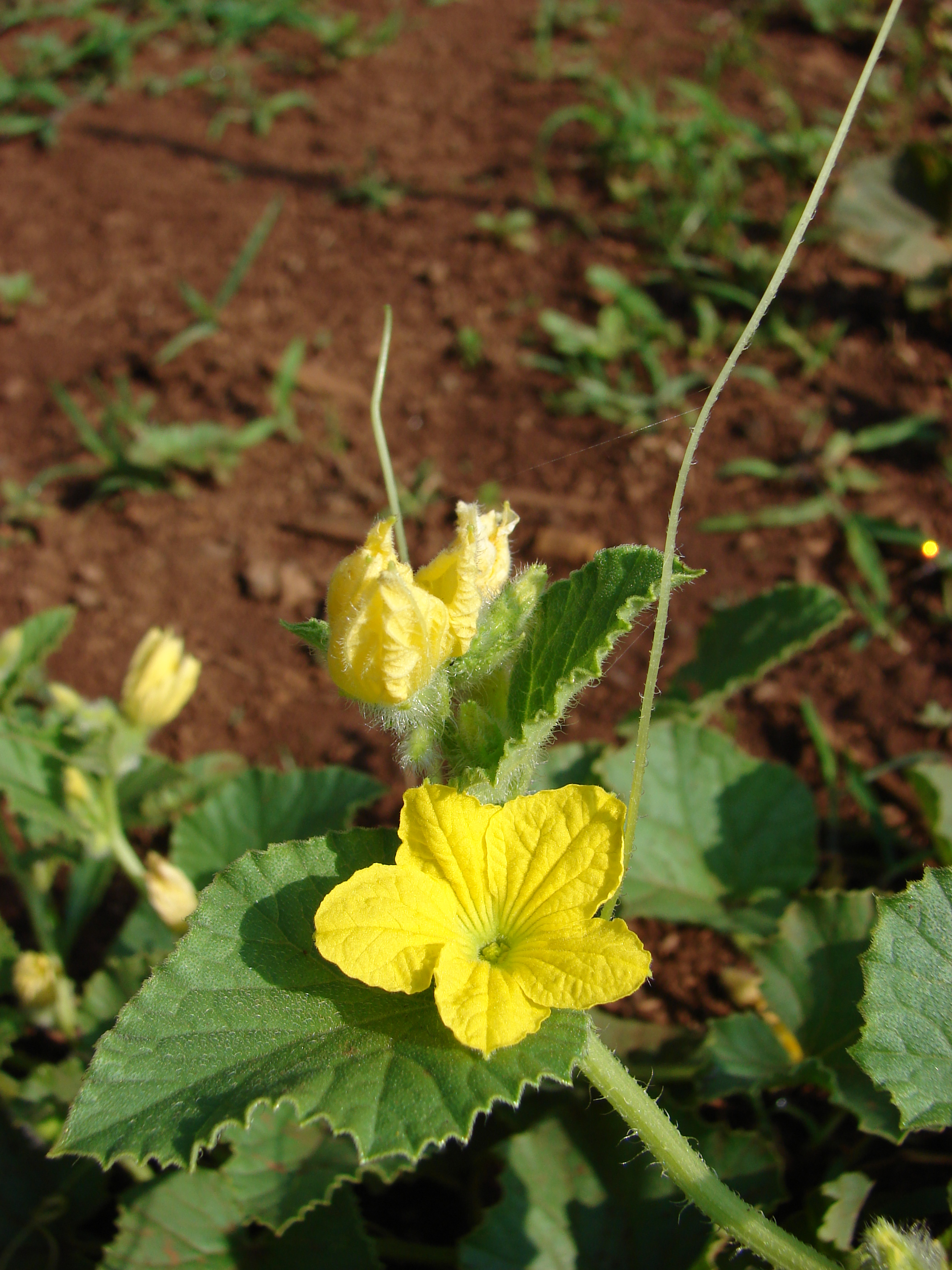 Cucumis melo (cantaloupe flowers). Location: Maui, Makawao